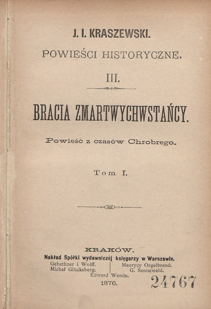 novel